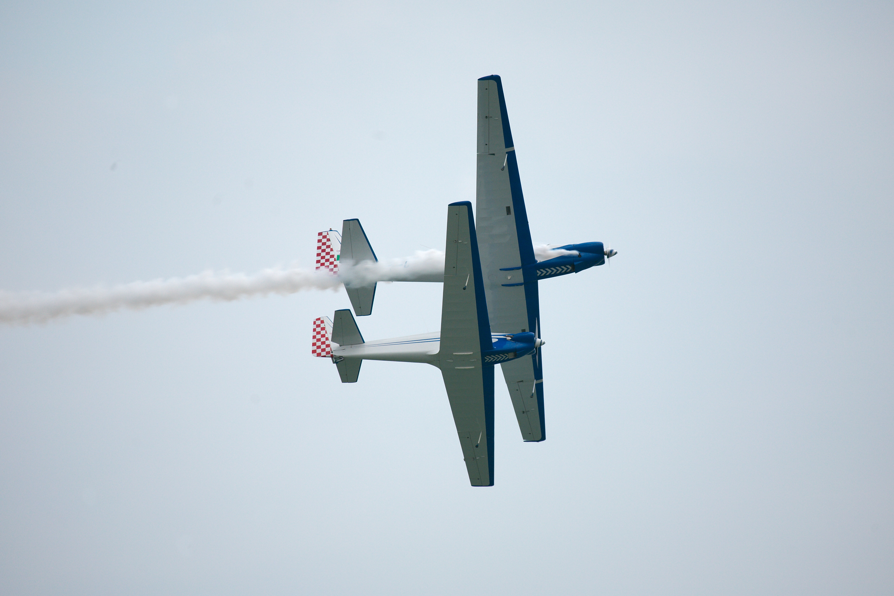 Fournier motorgliders (RF4 nad RF5) of team "Blue Voltige" during "Air Extreme" 29.08.2009 in Jesolo